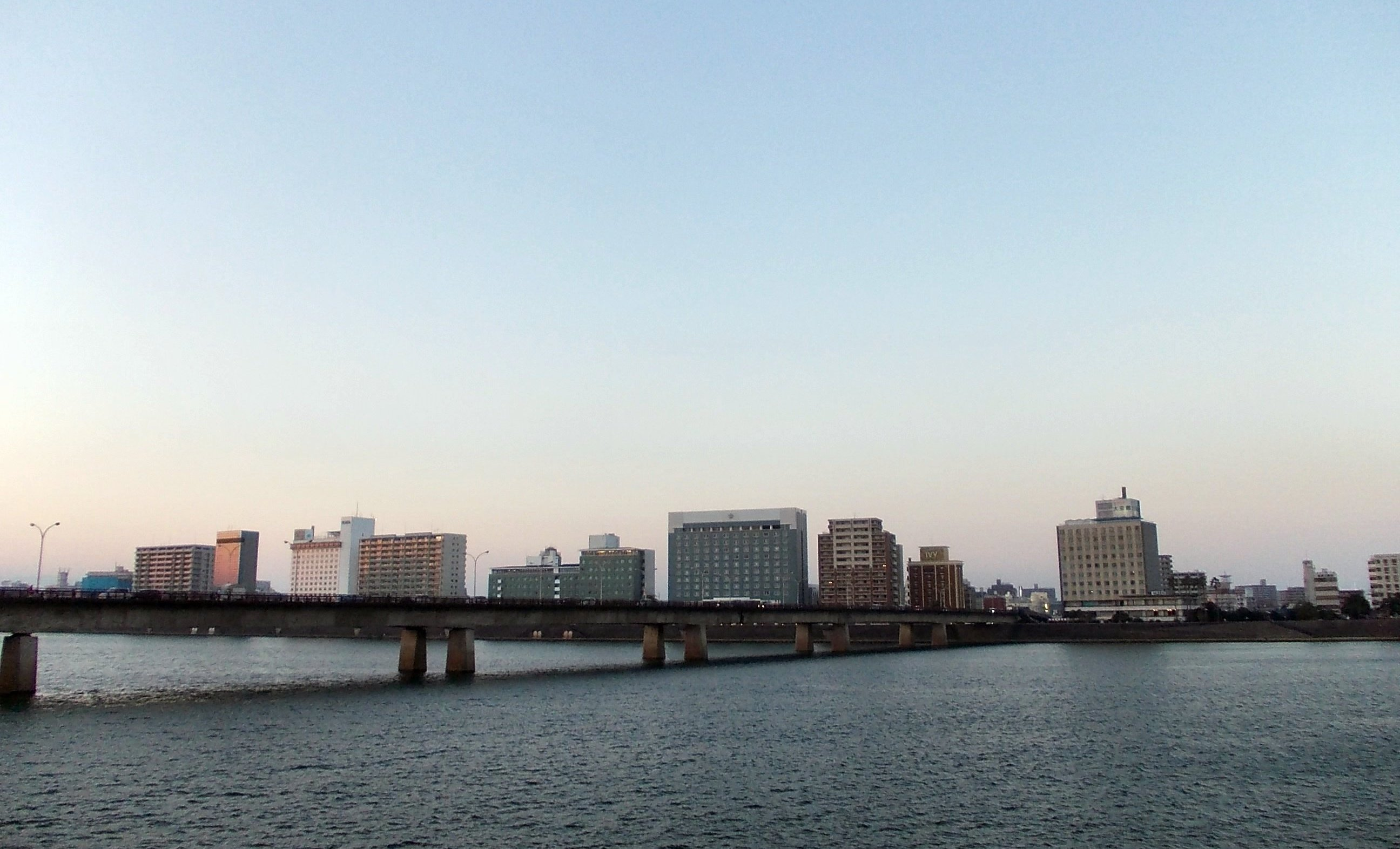 Oyodo-ohashi Bridge, Miyazaki, Japan